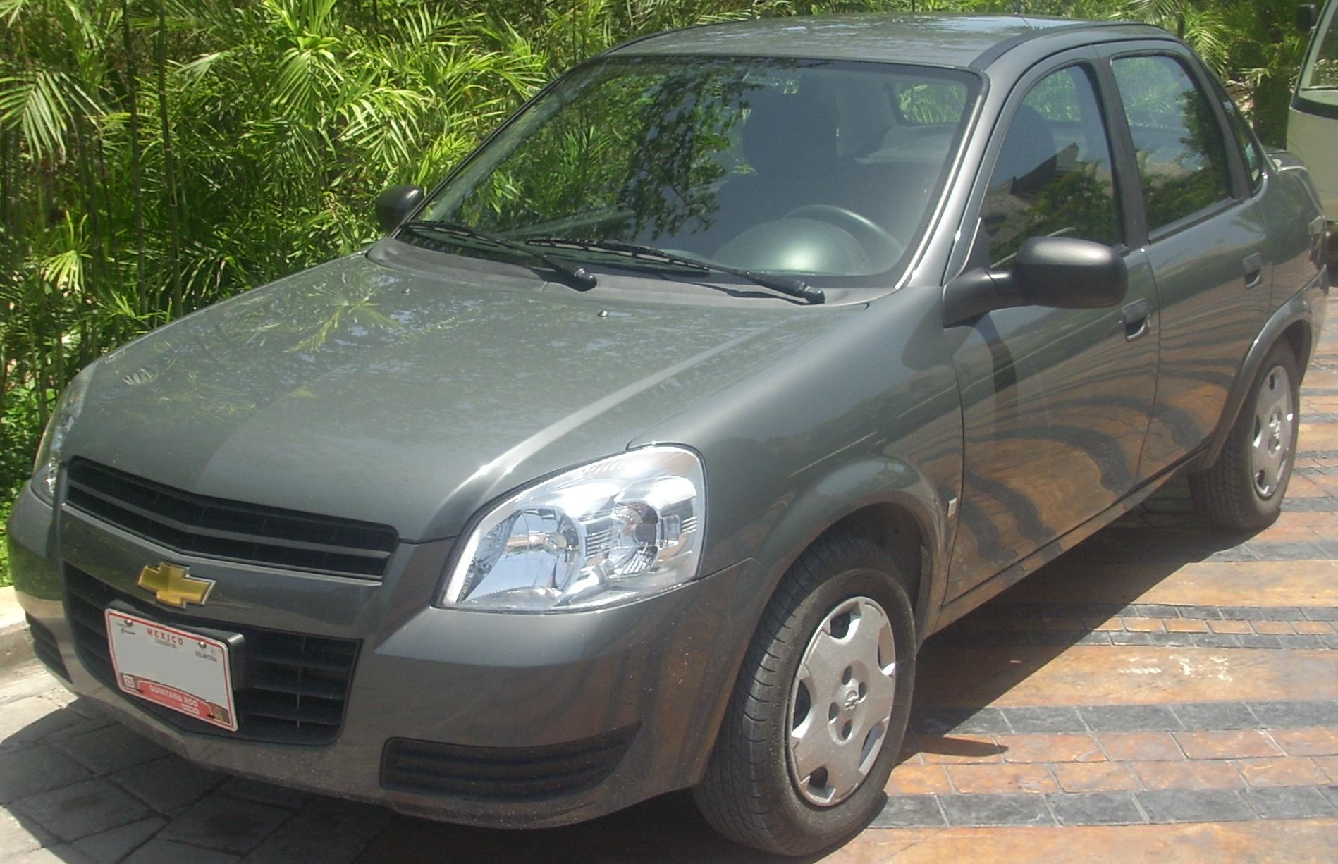 2009 Chevrolet Chevy photographed in Cancun, Quintana Roo, Mexico